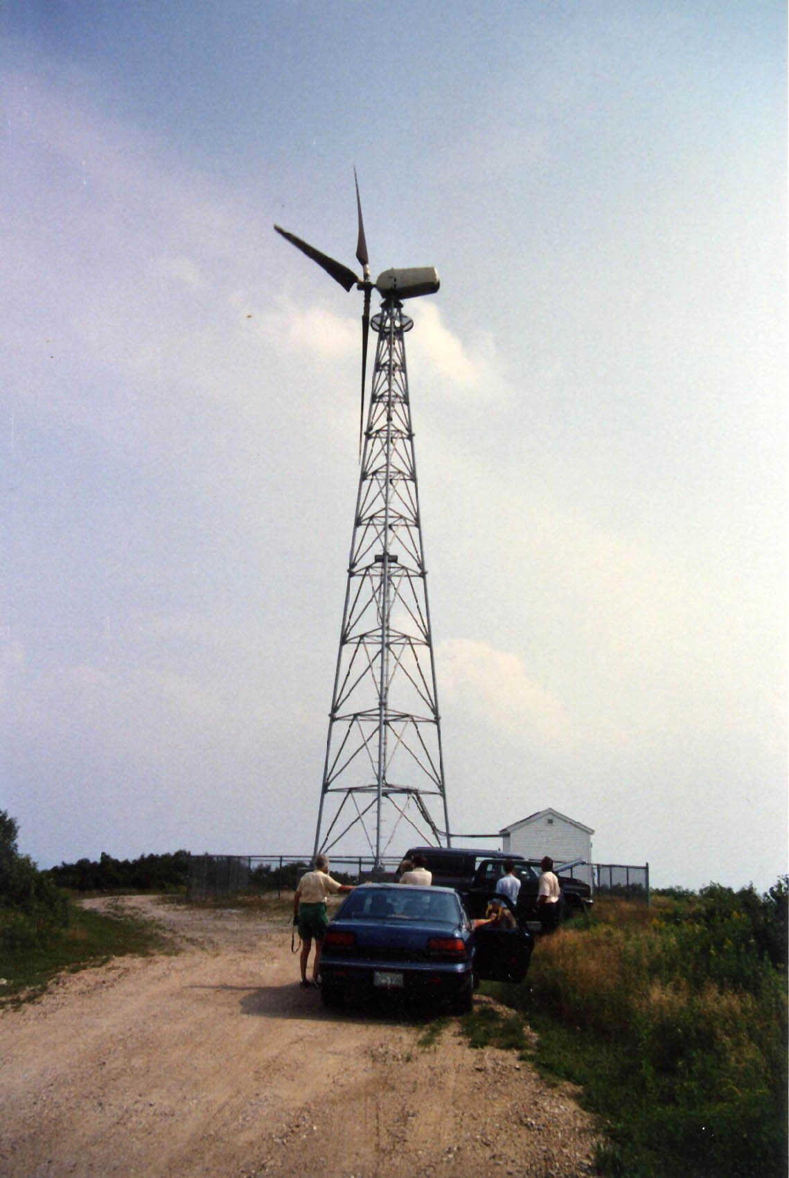 The 100kW US Windpower wind turbines were installed on Little Equinox Mountain in Bennington County, VT from 1990-1994.